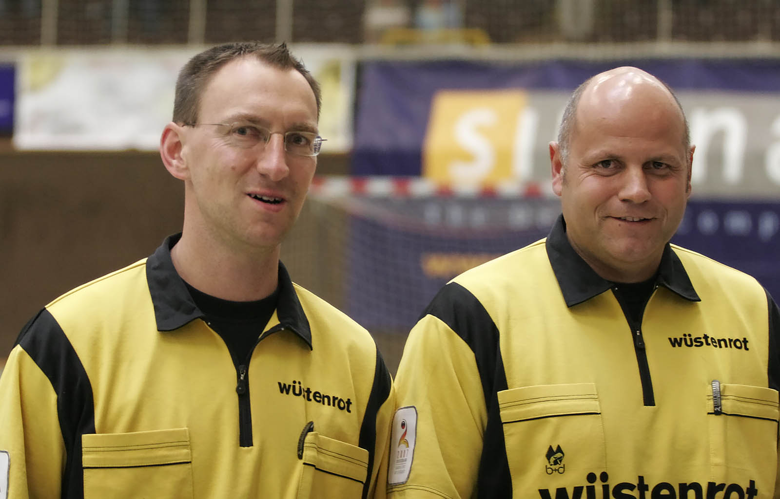 Frank Wenz (left) and Ralf Damian (right), two famous German handball referees. Picture taken in Bensheim prior the Play-off game HSG Bensheim/Auerbach - TV Beyeröhde.